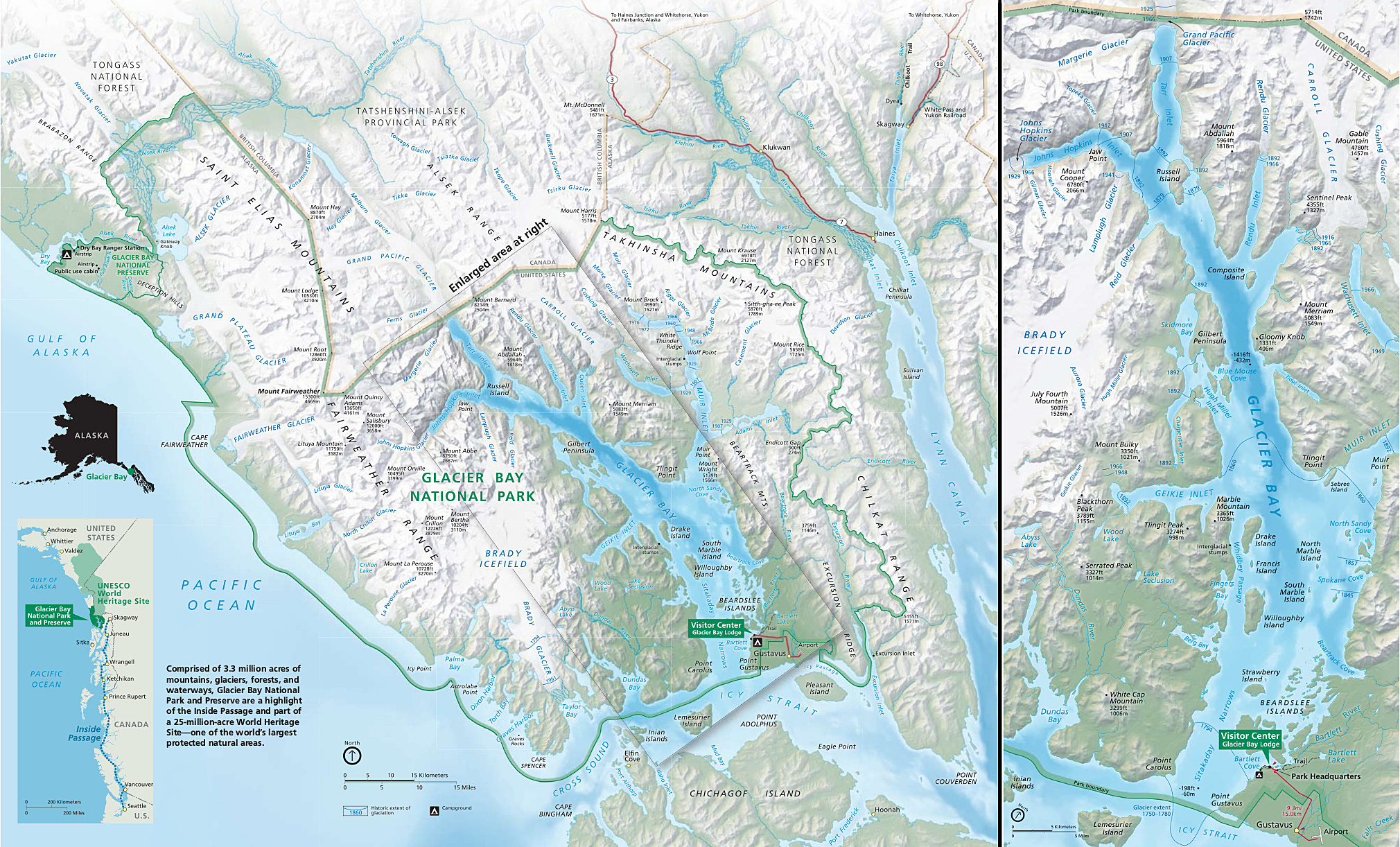 Map of Glacier Bay National Park, Alaska, United States from the official park brochure (page 2) with an enlarged detail map of the bay on the right side. Original maps edited to remove majority of the brochure text and place the maps side-by-side in a rectangular format with a thin black line separating them.